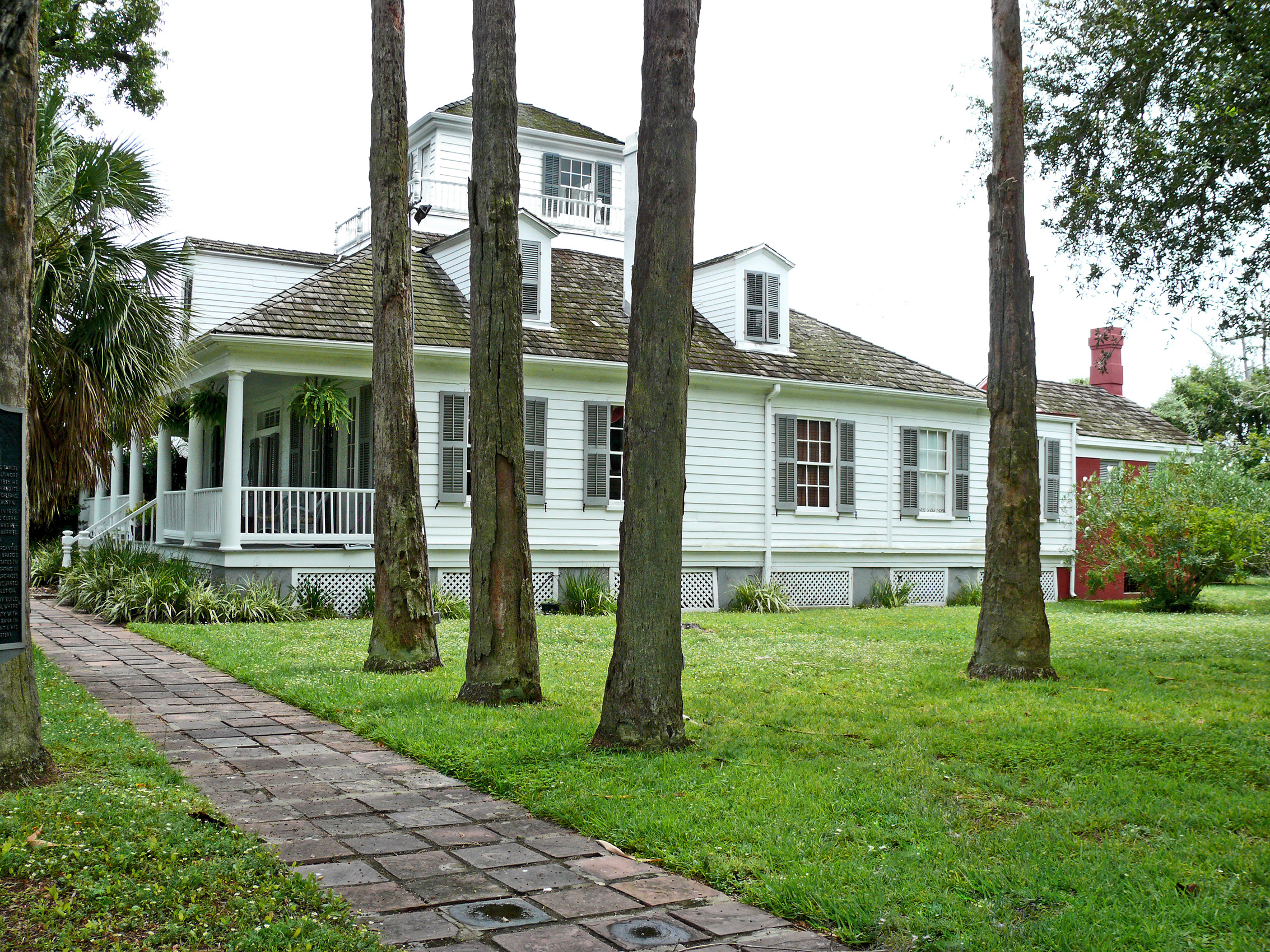 This rare combination of Creole-plantation and New England architectural styles was built in 1838 for Samuel May Williams, secretary to Stephen F. Austin and founder of the Texas Navy.